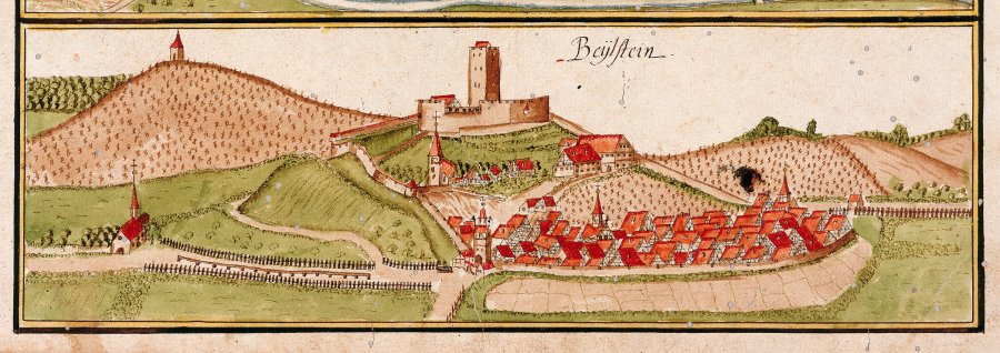 View of Beilstein from the forest register books created by Andreas Kieser